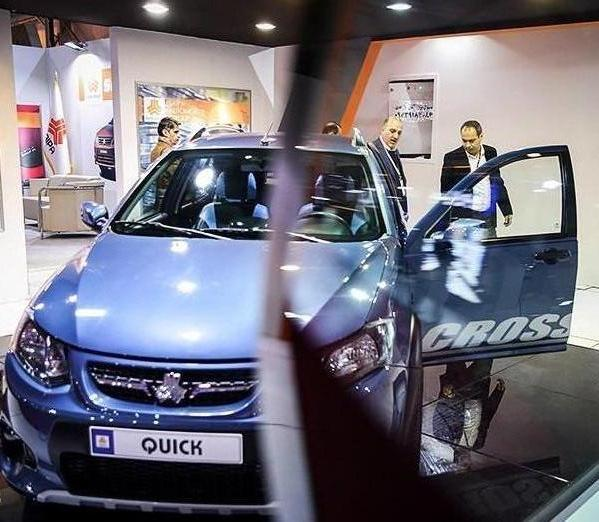 QUICK